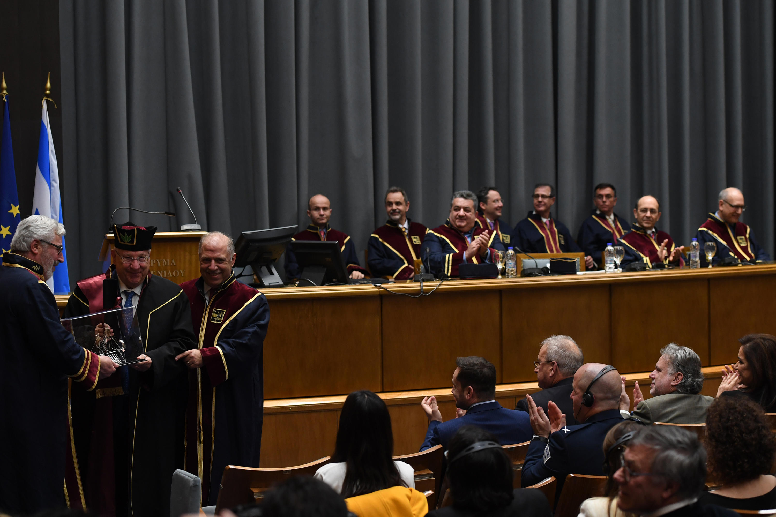 President of Israel, Reuven Rivlin, receives honorary degree from University of Piraeus Wednesday, 31 January 2018. Photo credit: Haim Zach / GPO.